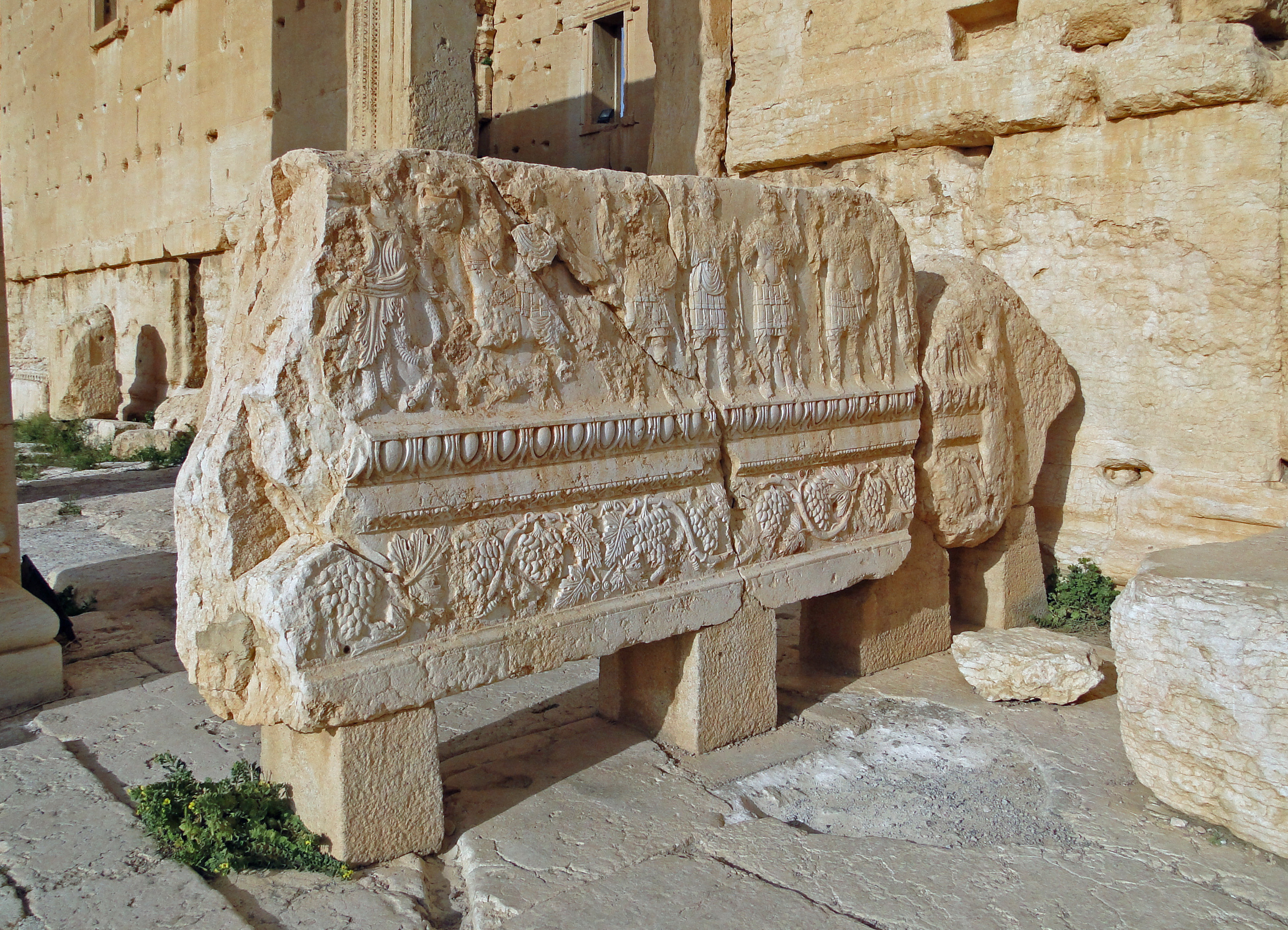 Relief in Temple of Bel, Palmyra, Syria